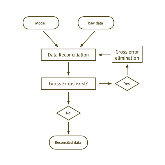 Scheme of advanced data validation and reconciliation process with gross error elimination